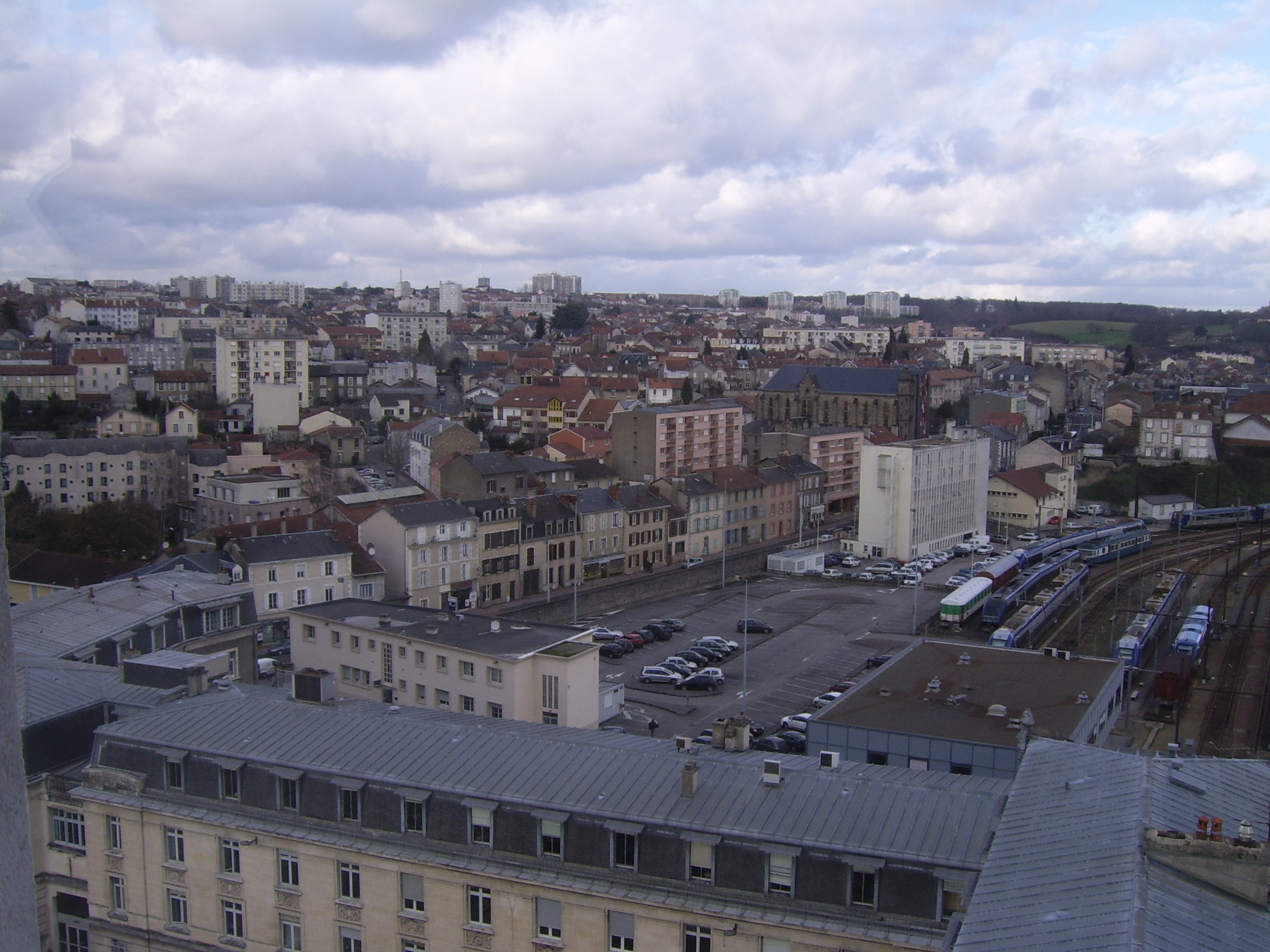 View of the Aristide Briand neighbourhood in Limoges, France